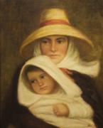 Painting